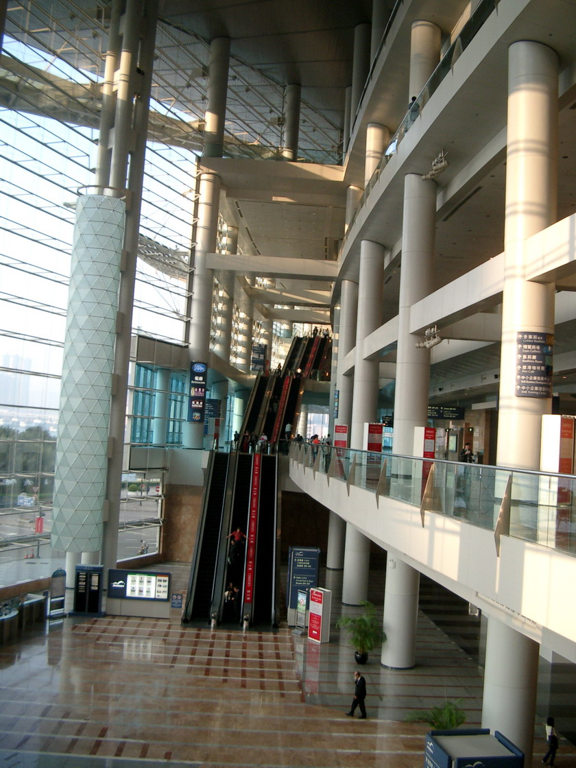 This photo was taken by User:Jepense on Sunday 27th November 2005.